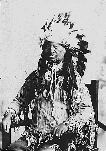 title : Chief Kack-Kack (Gékék) of the Prairie Band of Potawatomi, ca. 1925 Description : Item from Record Group 75: Records of the Bureau of Indian Affairs, 1793 - 1989 Series: Potawatomi Agency: Photographs, 1890 - 1950 ARC Identifier: 285629